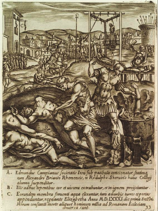 Execution of Edmund Campion, Alexander Briant and Ralph Sherwin : engraving by Giovanni Battista Cavalieri (after Niccolò Circignani's frescoes in the chapel of the Venerable English College in Rome), and published in Ecclesiae Anglicanae Trophaea (Rome 1584). Stonyhurst Collections